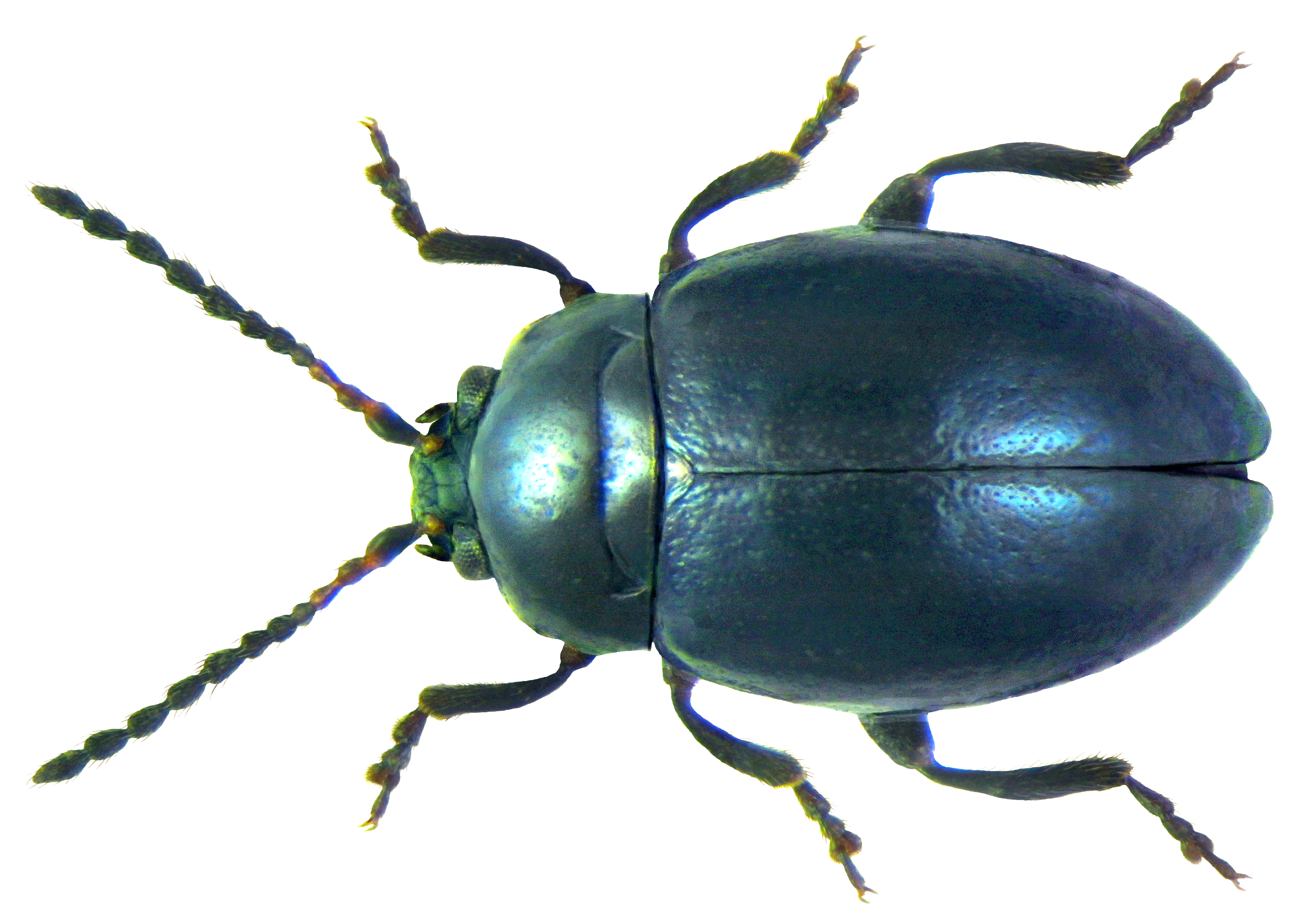 Family: Chrysomelidae Size: 2.3 to 3.0 mm Origin: Europe Ecology: on Mercurialis perennis Location: Austria, Leitha Mountains, Windener Tal G.Roessler leg, 8.V.1988; det. G.Roessler, 1996 Photo: U.Schmidt, 2011